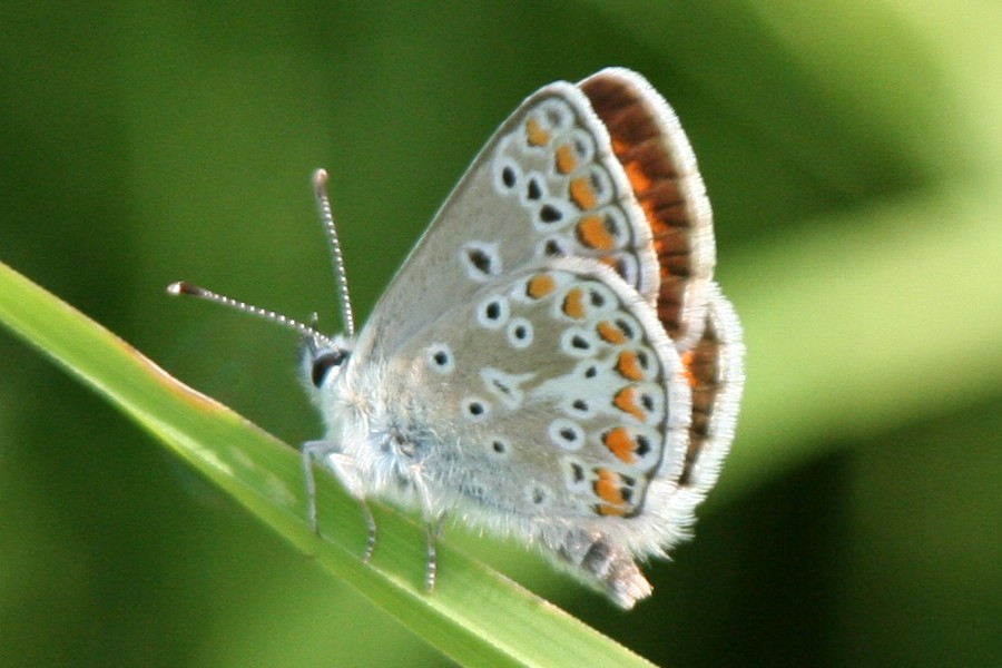 A Brown Argus butterfly (Aricia agestis), photographed on a meadow at the river Sulm in Obersulm-Affaltrach